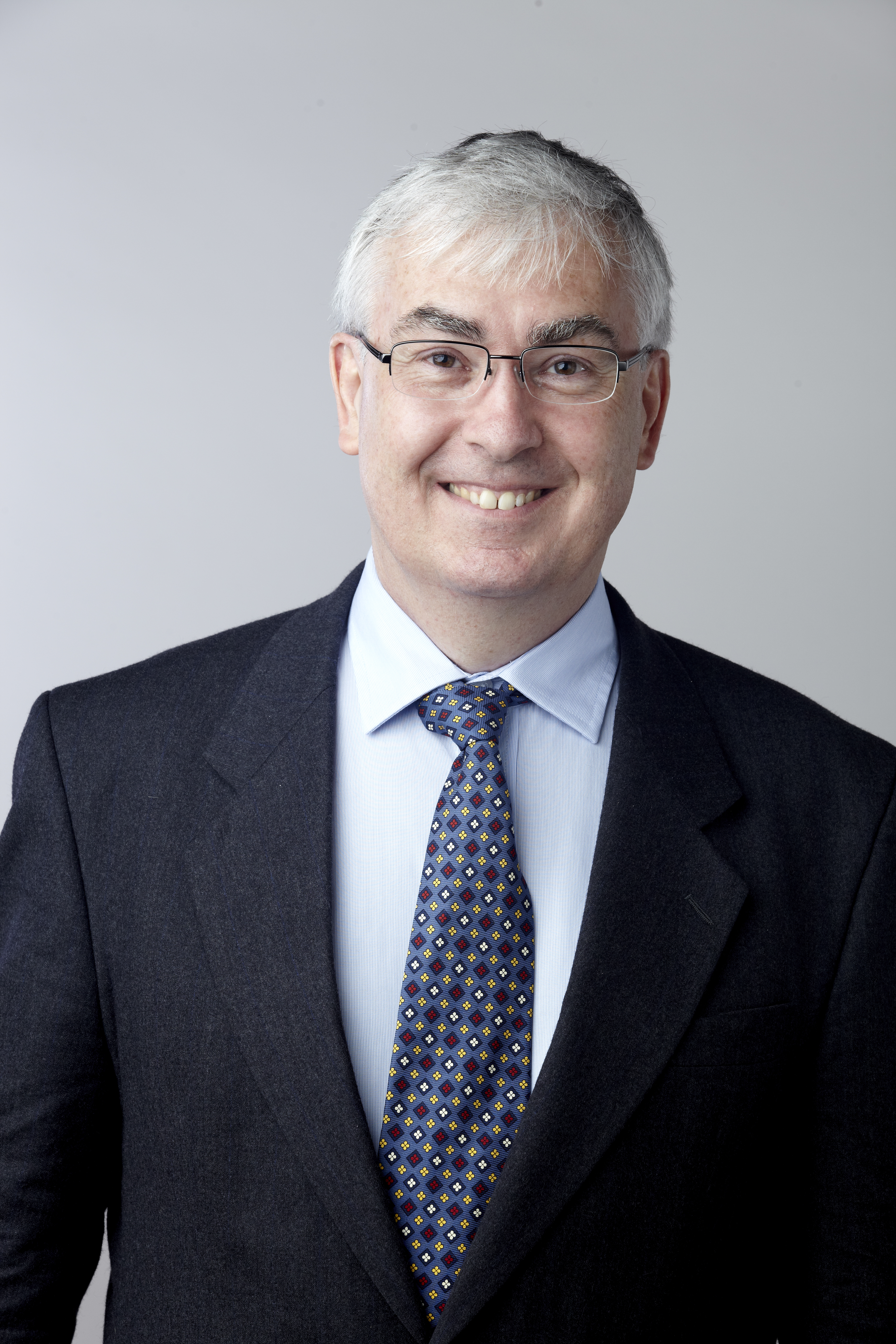 Professor Randy Read FRS, Royal Society Fellow elected 2014 Attribution: The Royal Society